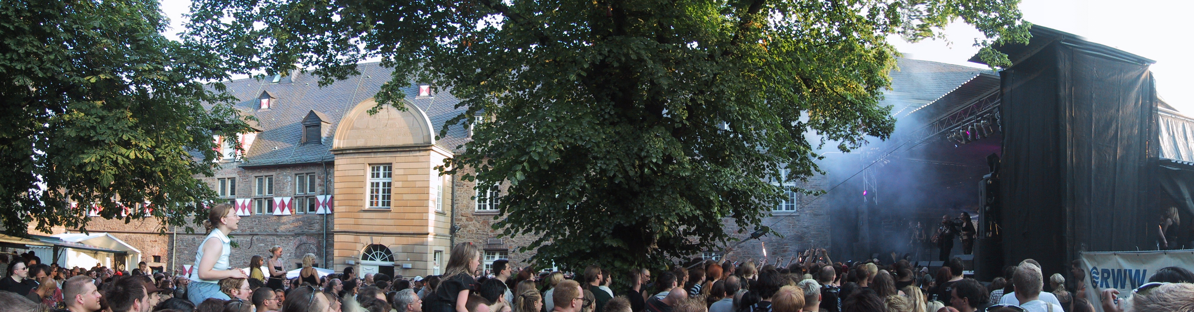 Panoramabild des Burgfolk Musikfestival im Schloss Broich, Mülheim Panorama of the folk music festival BURGFOLK in the castle Broich, Mülheim Date: Summer 2003, Mülheim, Ruhr Area, Germany Author: Maschinenjunge Licence: cc-by-sa-2.5 de: Schloss Broich